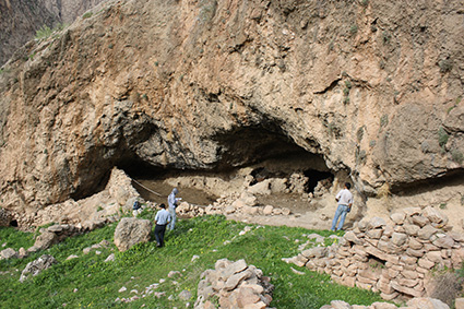 Earliest human settlement site in Hawraman near Hajij village